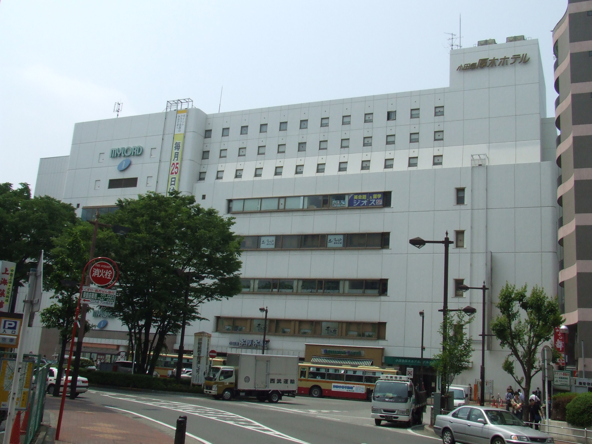 South building of Hon-Atsugi station, OER ODAWARA LINE, Odakyu Electric Railwey, Japan